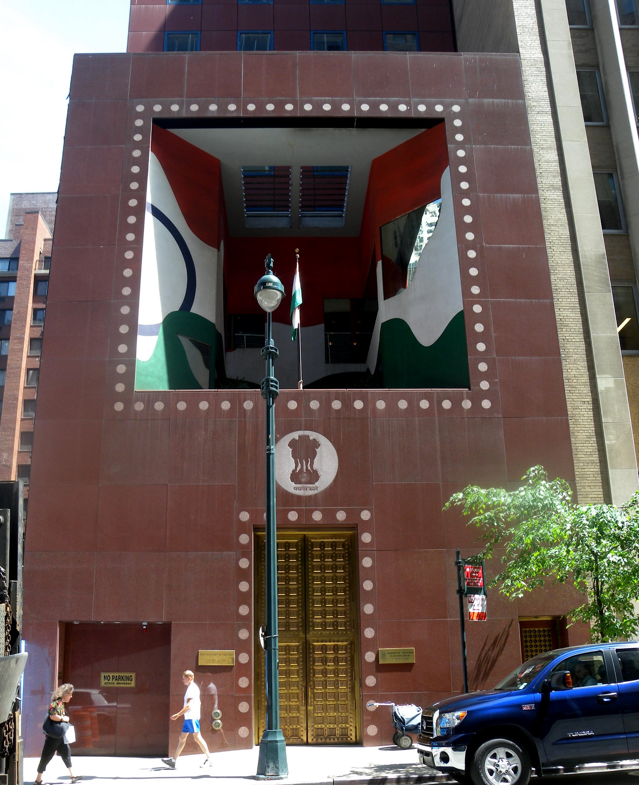 Looking north across 43d at India's mission on a sunny late morning.